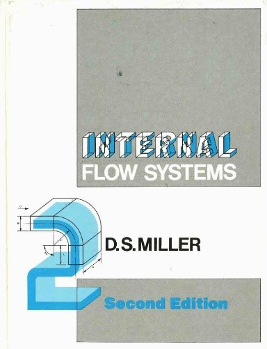 Internal Flow Systems 2nd Edition Front Cover